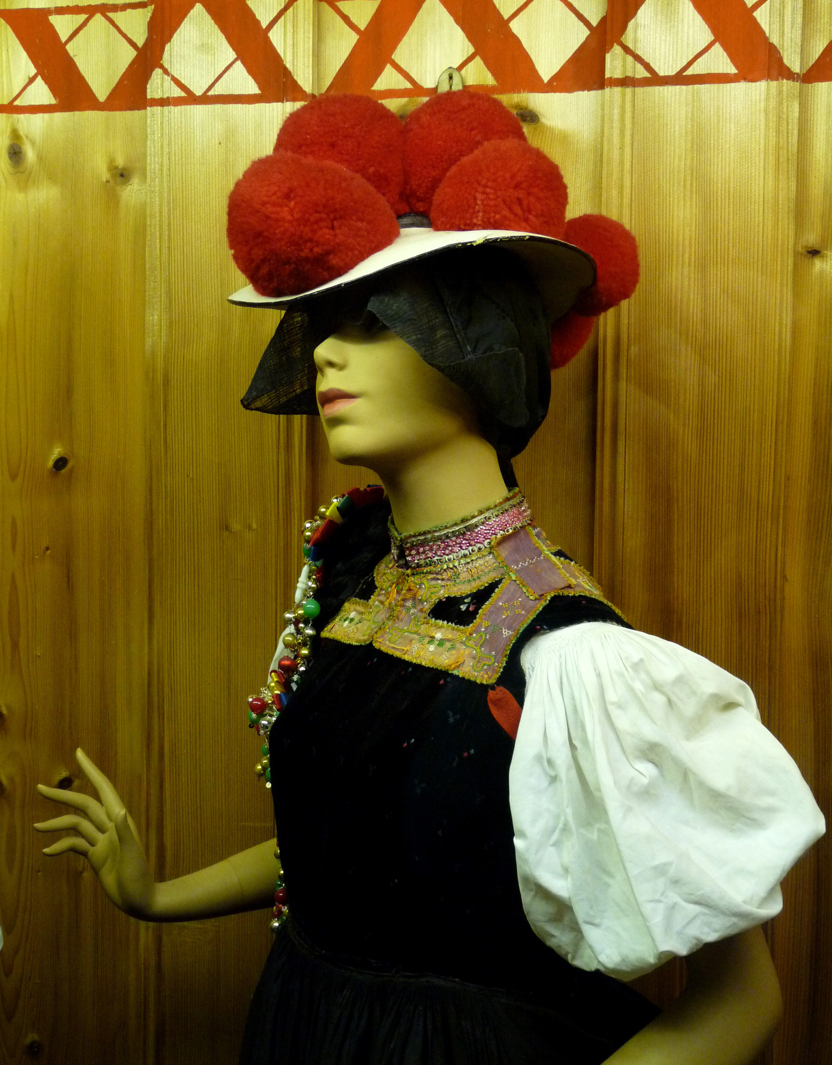 The traditional costume (with red Bollenhut) of young women in the Black Forest town Gutach, here displayed in the open air museum Vogtsbauernhof. Married women wear a black Bollenhut.